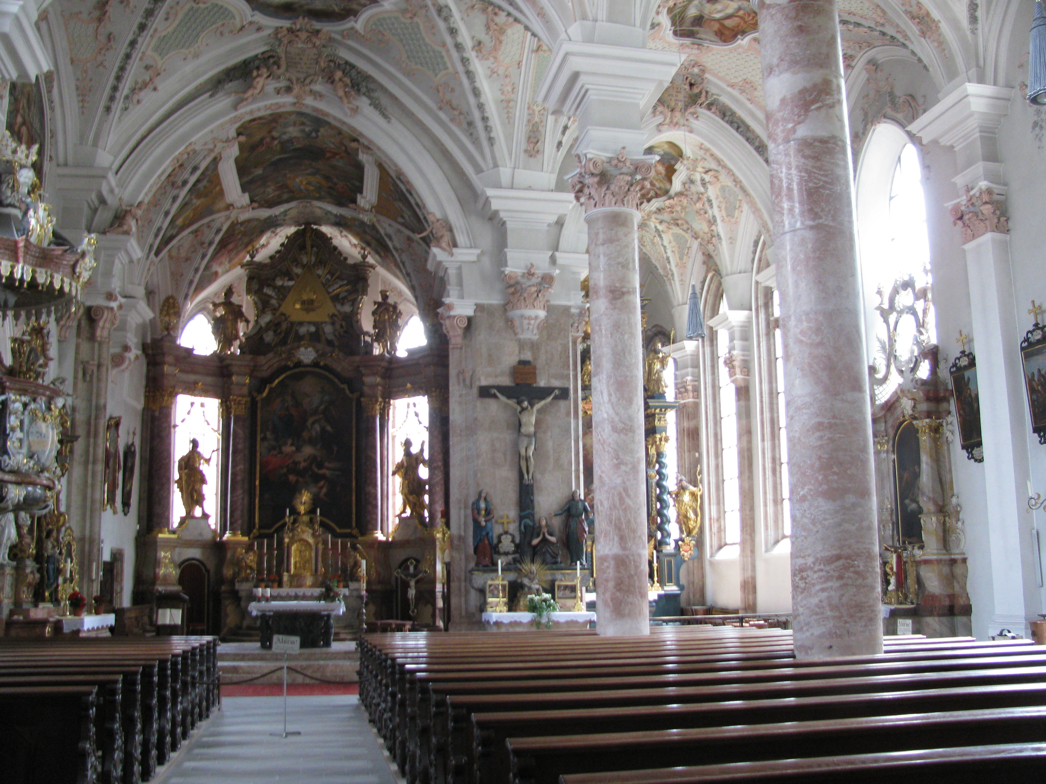 Church of Rattenberg, Tyrol, interior